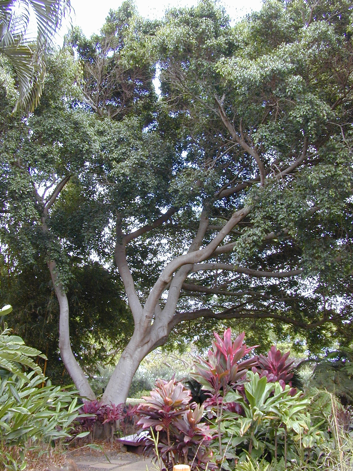 Ficus benjamina (habit). Location: Maui, Kahului